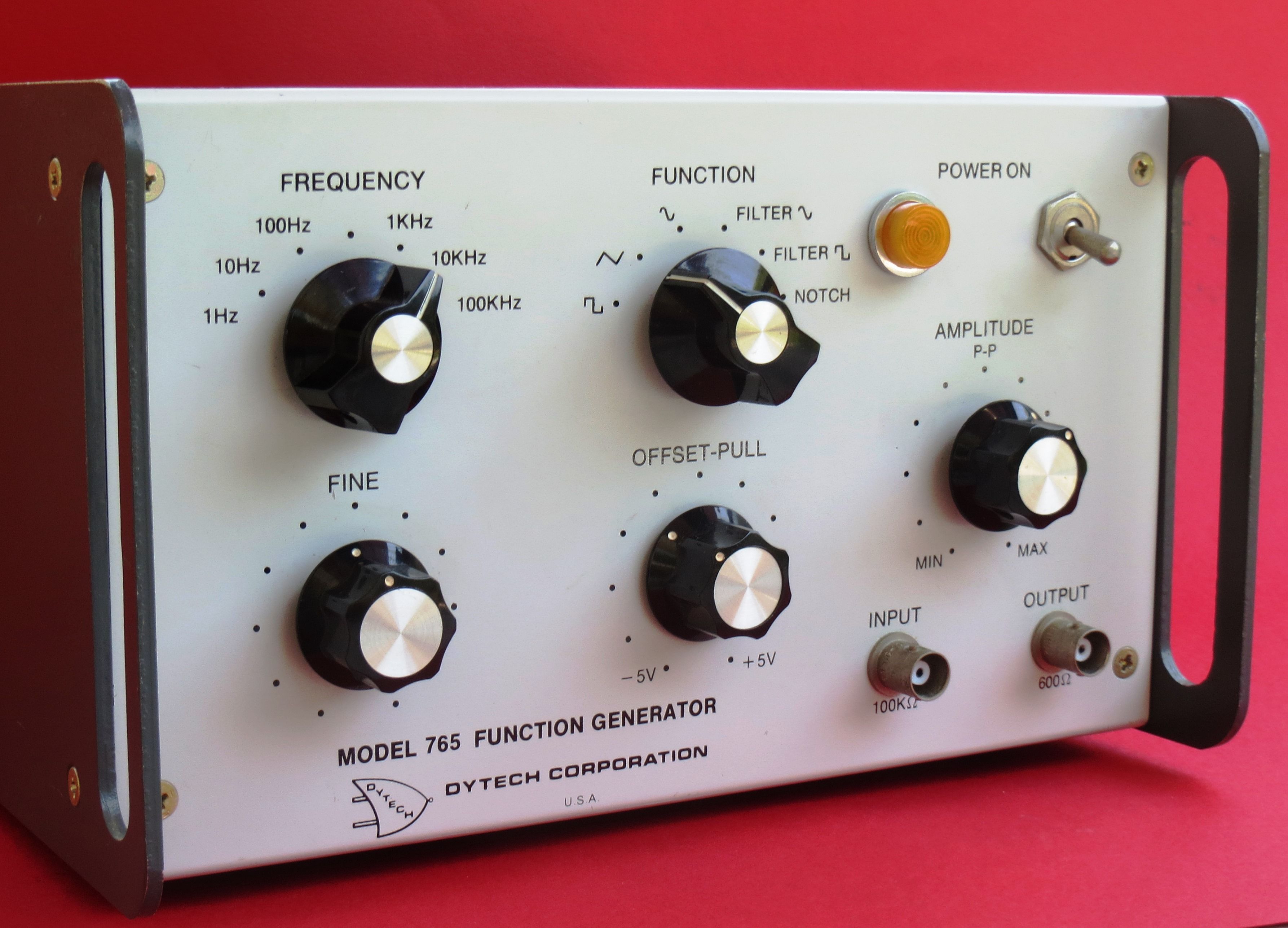 The Fil-Oscillator was introduced in the May 1971 issue of Popular Electronics magazine in an article by Roger Melen and Harry Garland. Melen and Garland licensed the design to Dytech Corporation resulting in this commercial product in 1973. Popular Electronics described the Fil-Oscillator as "both a sharp audio filter and a versatile waveform generator." In an independent evaluation by Hirsh-Houck Laboratories the Fil-Oscillator was heralded as "a very useful instrument for an audio engineering laboratory." Roger Melen and Harry Garland went on to found Cromemco.